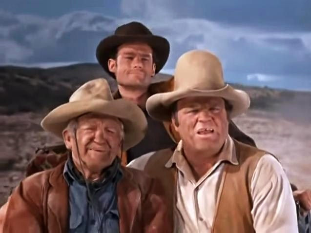 L. to R. : Bud Osborne, Ron Hayes & Dan Blocker in the TV-series Bonanza, episode Desert Justice - cropped screenshot